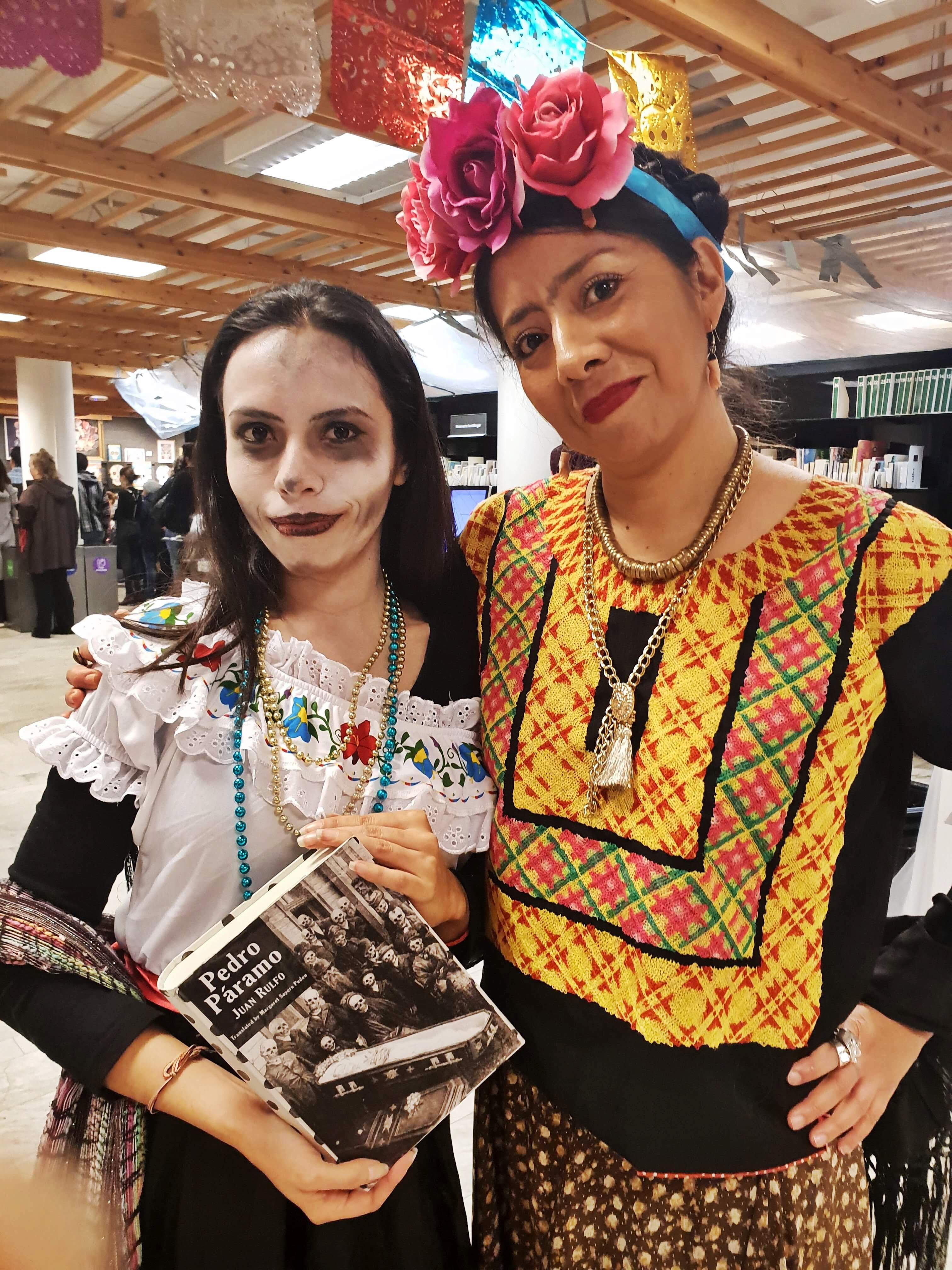 Day of the dead in Trondheim